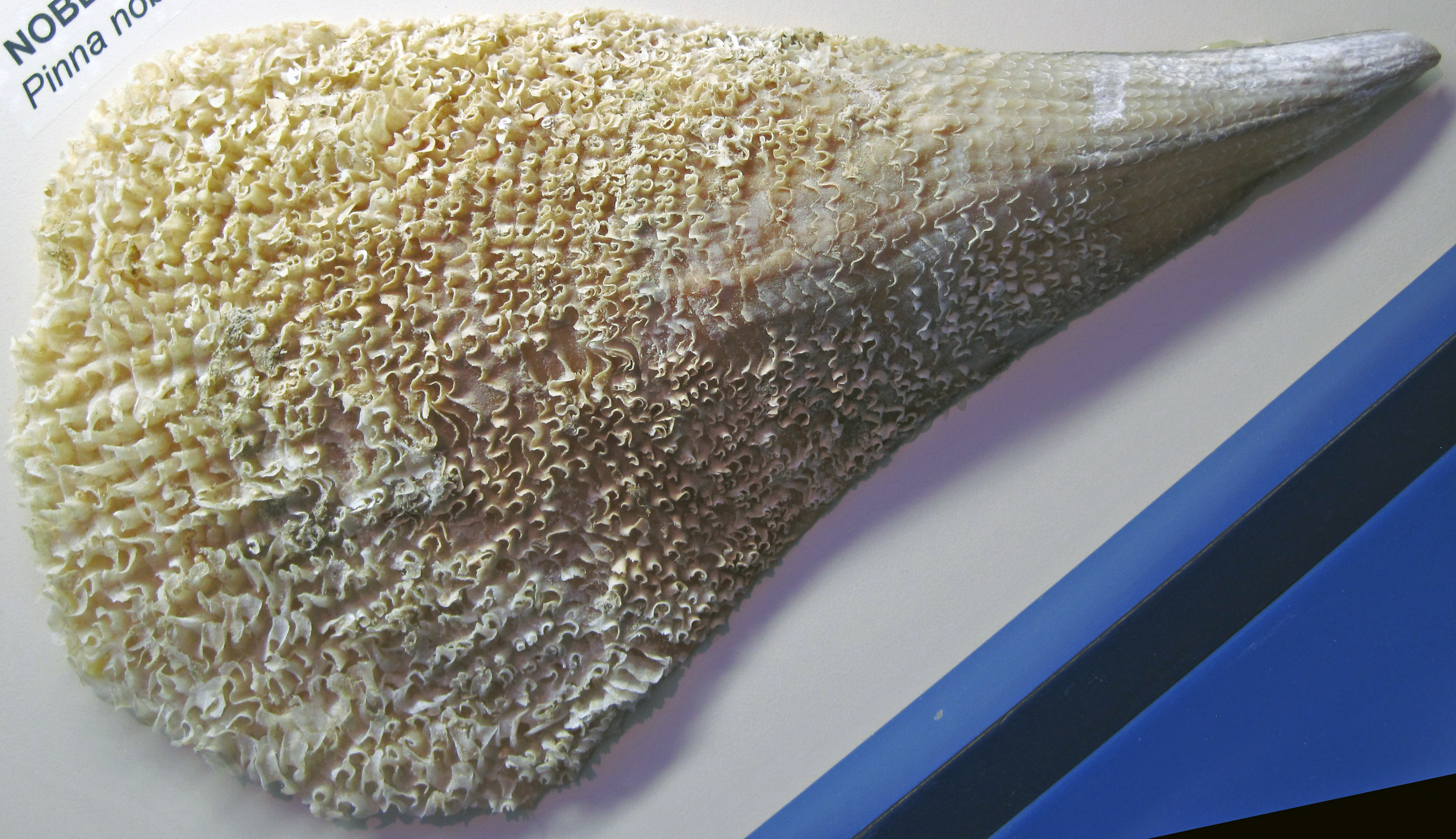 Pinna nobilis Linnaeus, 1758